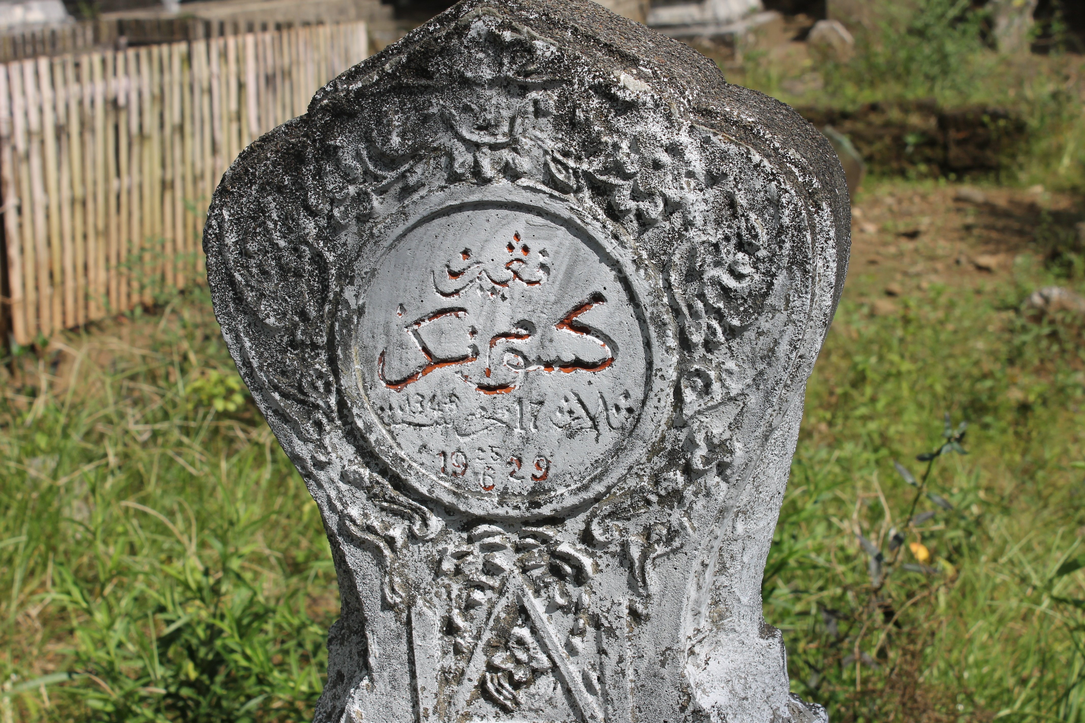 Makam ini berada di Bondowoso Jawa Timur